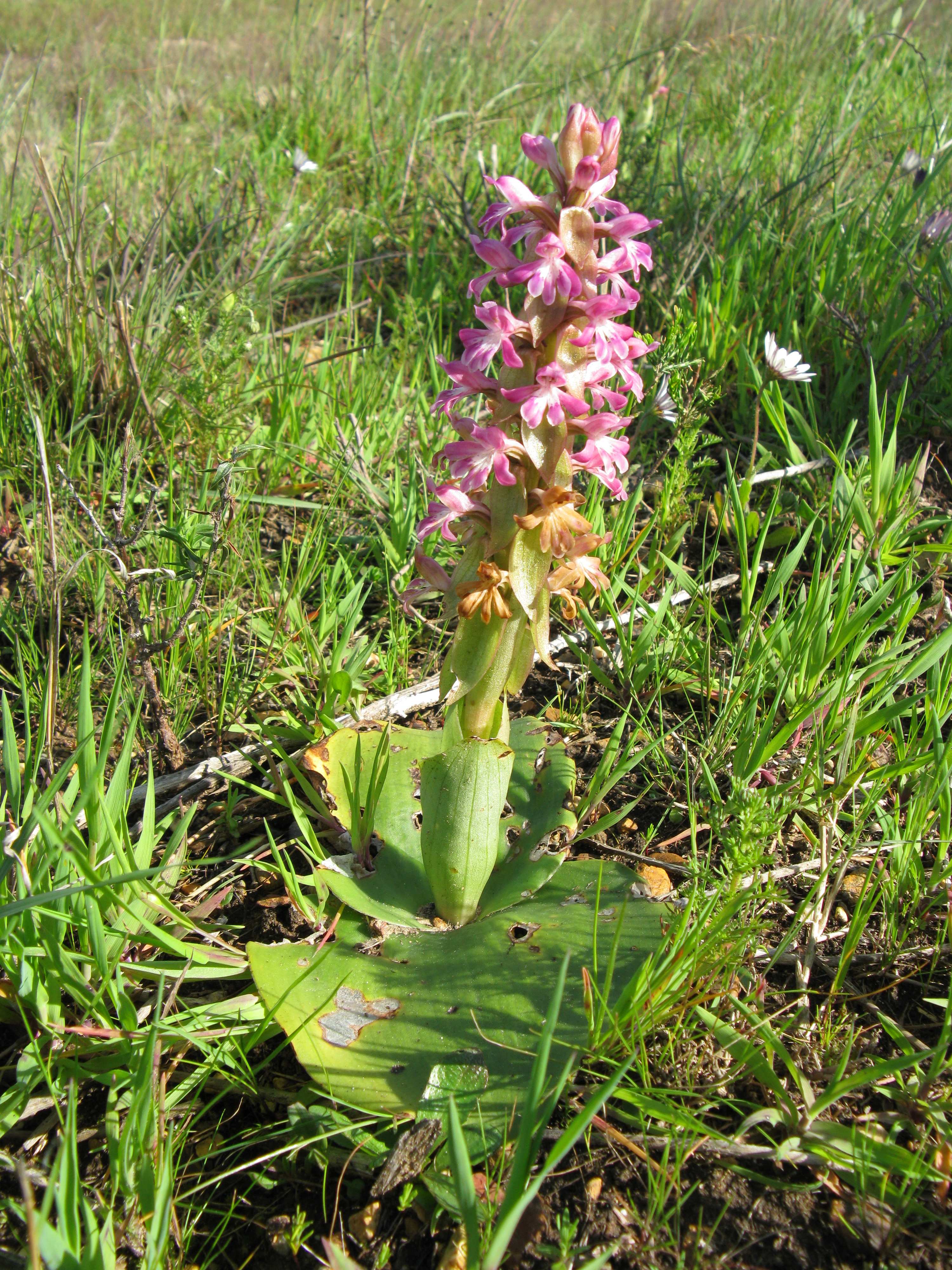 Satyrium is a genus of some 90 species of ground orchids, mainly African. Satyrium erectum is a pink-flowered species with spotted petals. It is endemic to the Western Cape of South Africa. Unofficial Afrikaans common name Pienktrewwa